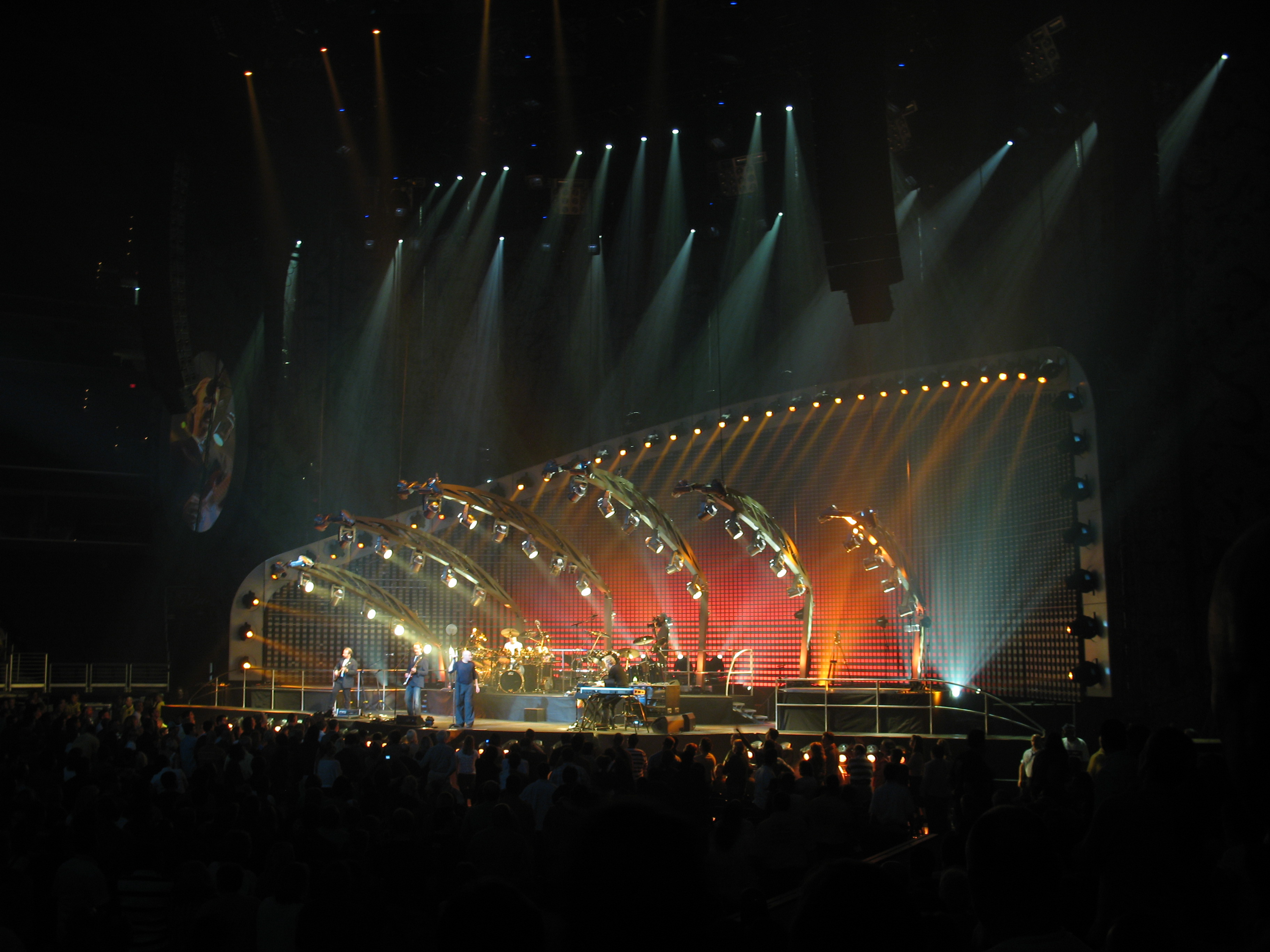 Genesis concert at the Verizon Center, Washington, D.C., USA. Performing "The Carpet Crawlers".